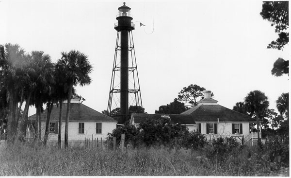 Anclote Keys Light. downloaded from no photo number/caption/date; photographer unknown